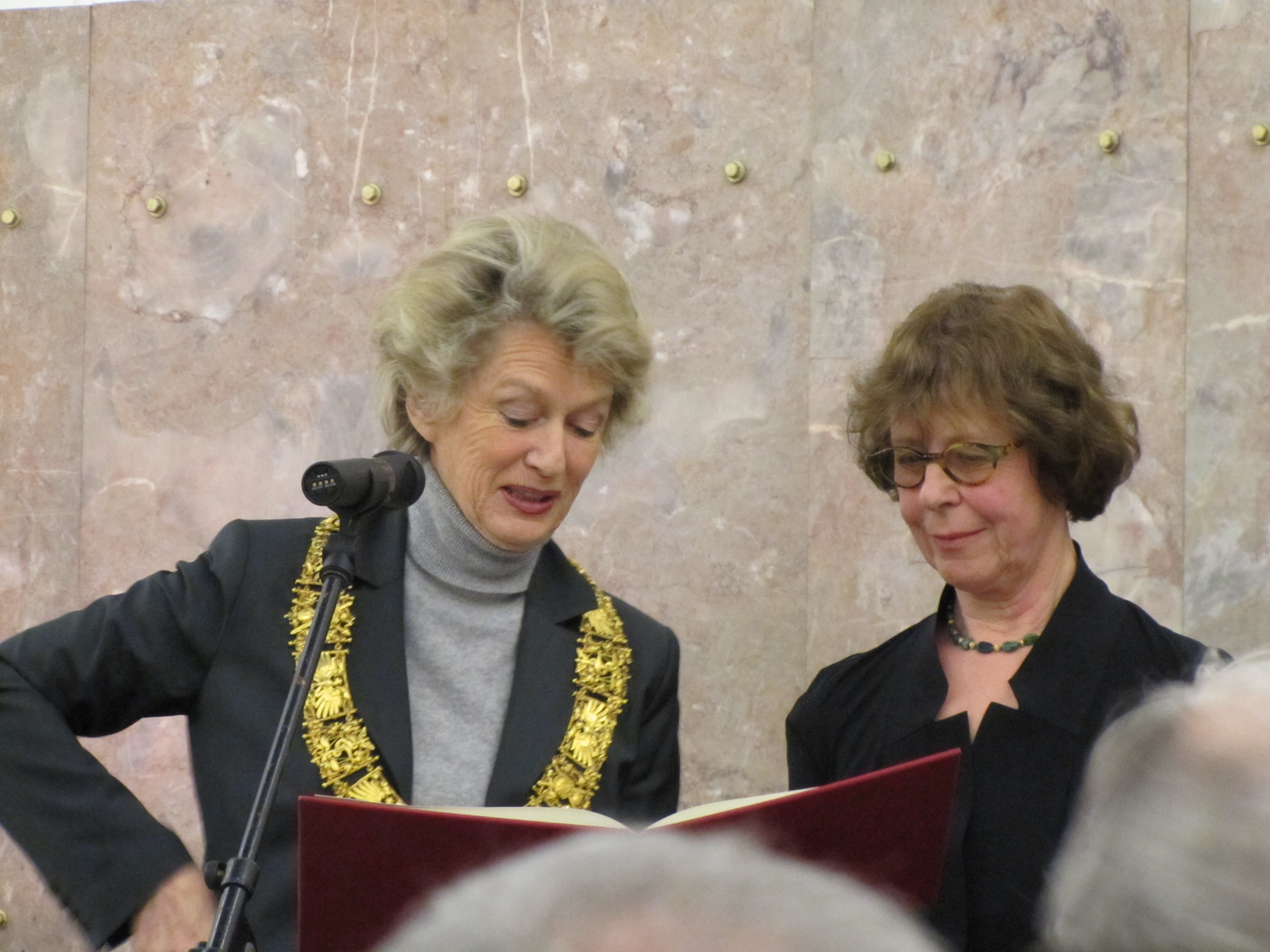 Petra Roth, mayor of Frankfurt am Main, and Barbara Klemm, photographer, during the "Max-Beckmann-Preis" ("Max-Beckmann-Award") diploma present ceremony 2010, at "Paulskirche" in Frankfurt am Main, Germany